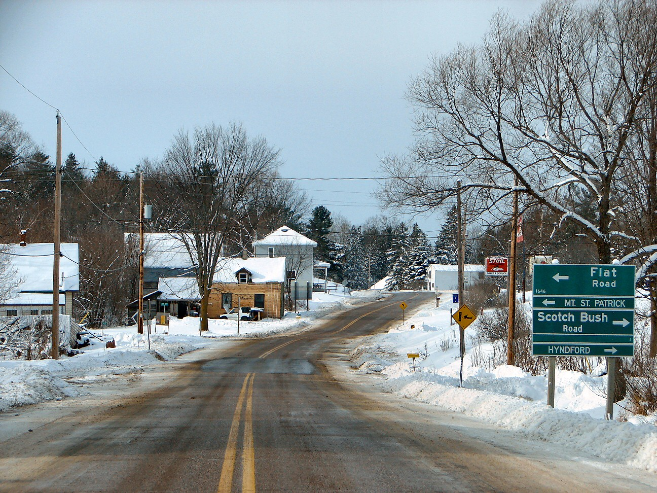 Dacre, Greater Madawaska municipality, Ontario, Canada